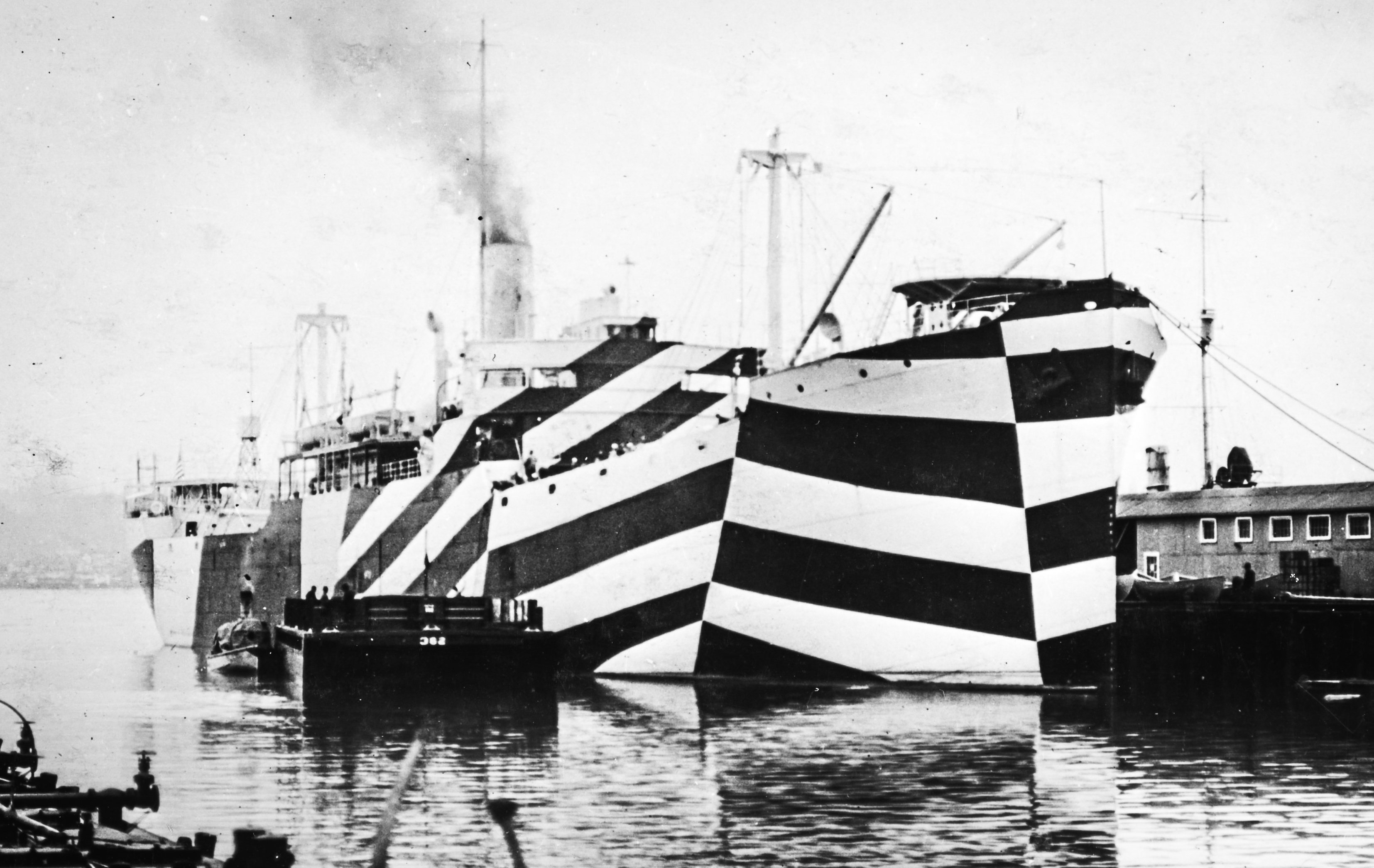 (ID # 3681) In port, circa November 1918 Note how her Dazzle camouflage greatly distorts the apparent aspect of her bow. Photograph from the Bureau of Ships Collection in the U.S. National Archives.